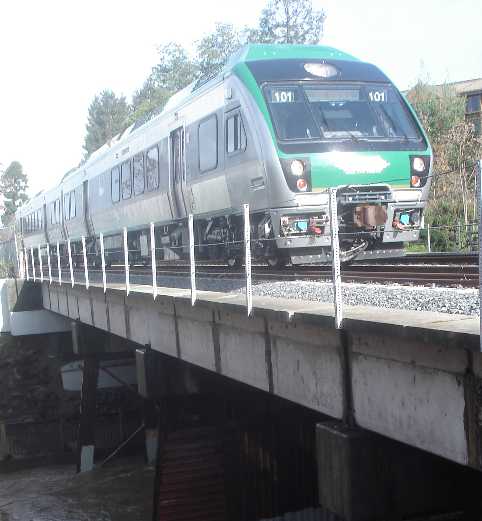 Sonoma-Marin Area Rail Transit train on the bridge over Santa Rosa Creek in January 2017.